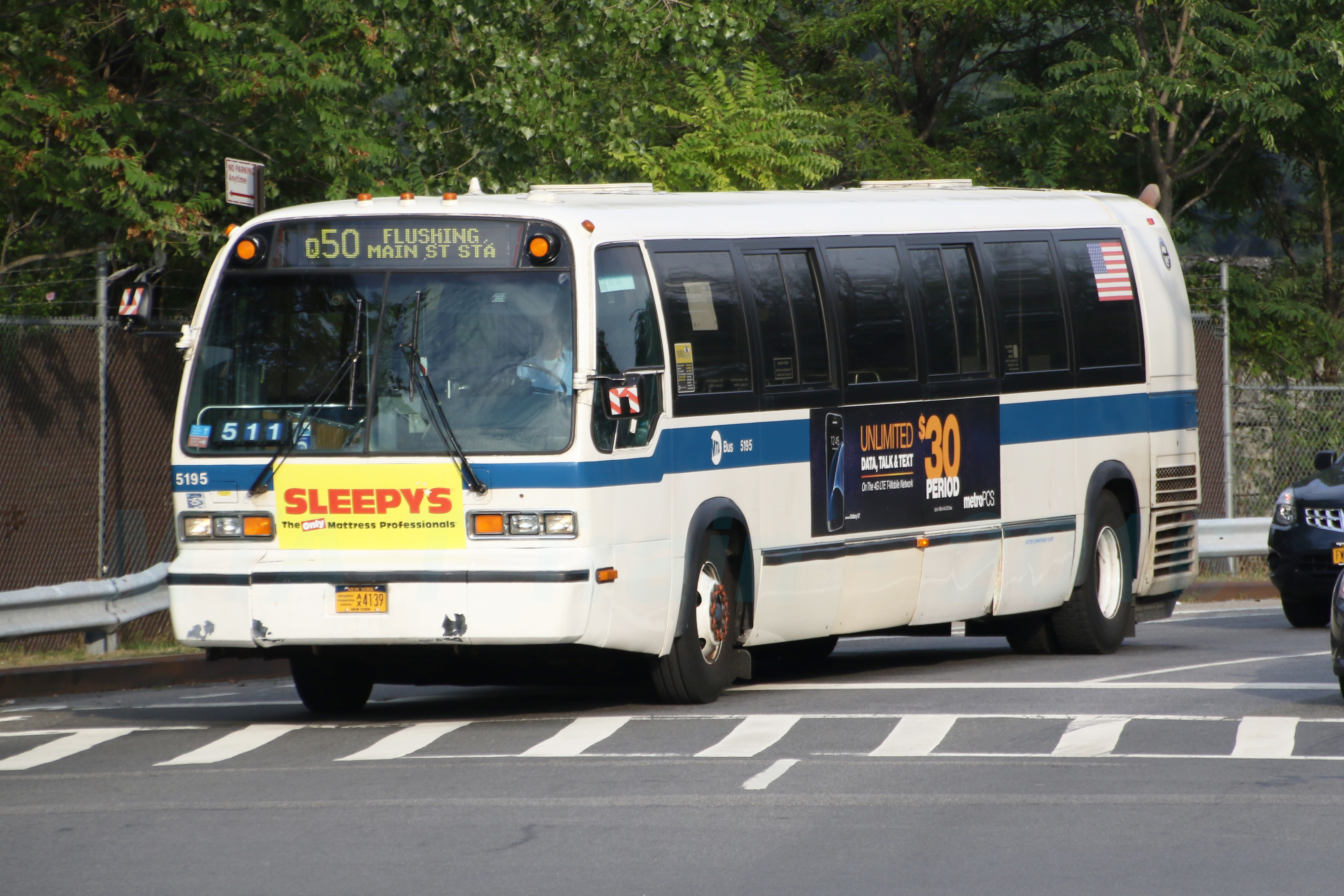 MTA Bus Nova Bus RTS-06 (T80206) 5195 Q50-Limited bus on Peartree Ave & Co-op City Blvd.